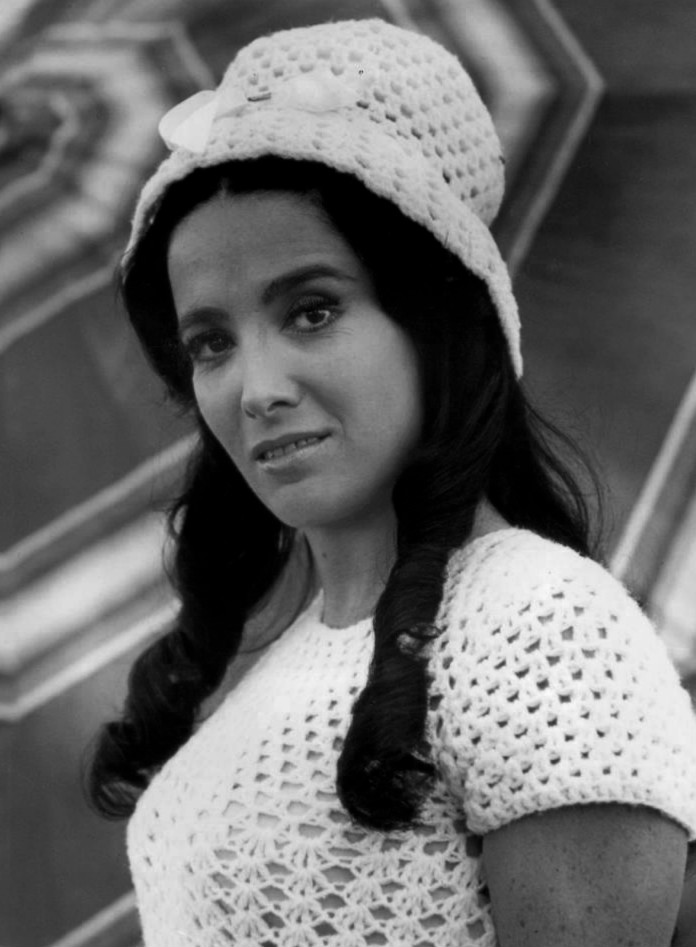 Publicity photo of Linda Cristal from the television program The High Chaparral.